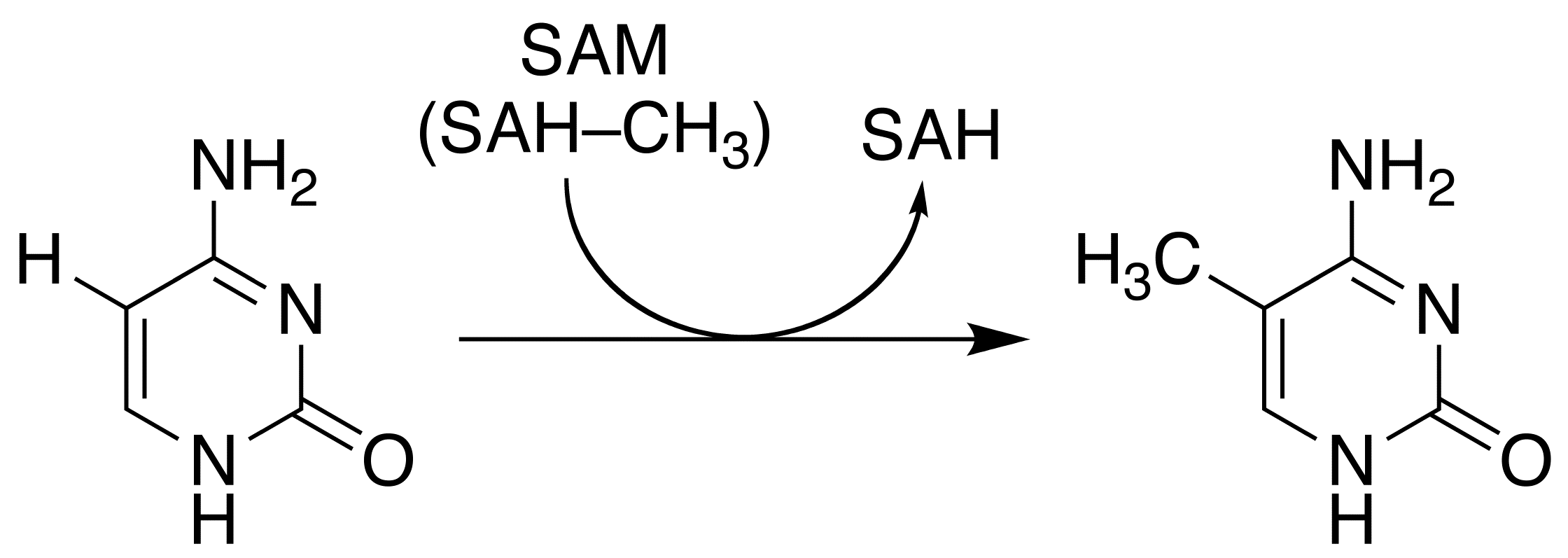 Skeletal structures for the methylation of methylcytosine to form 5-methylcytosine, using S-adenosyl methionine as the source of the methyl group and giving S-adenosyl-L-homocysteine as the byproduct.